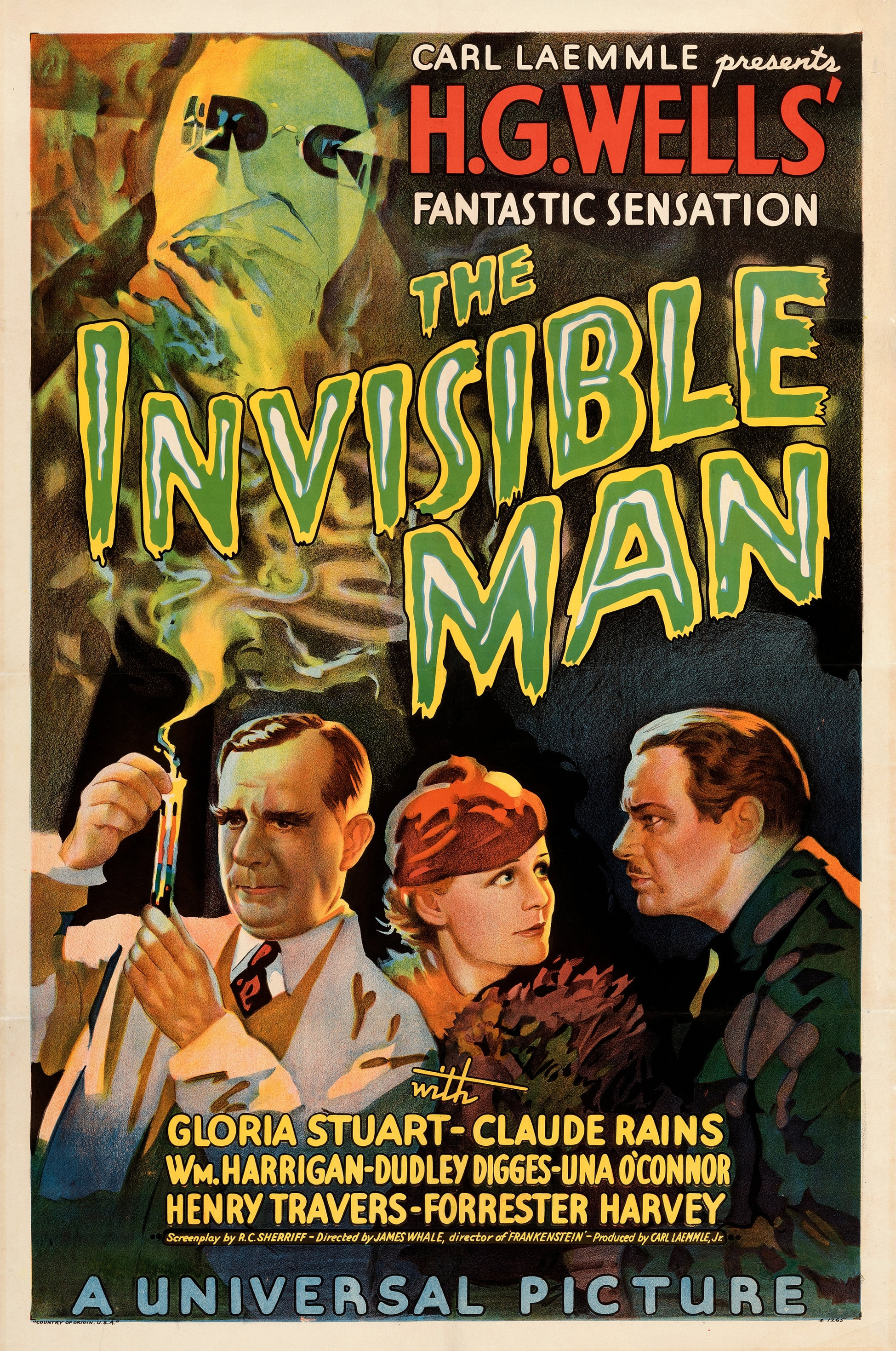 Theatrical release poster for the 1933 film The Invisible Man This is the Style B poster, following the more minimal "teaser" poster (see below).